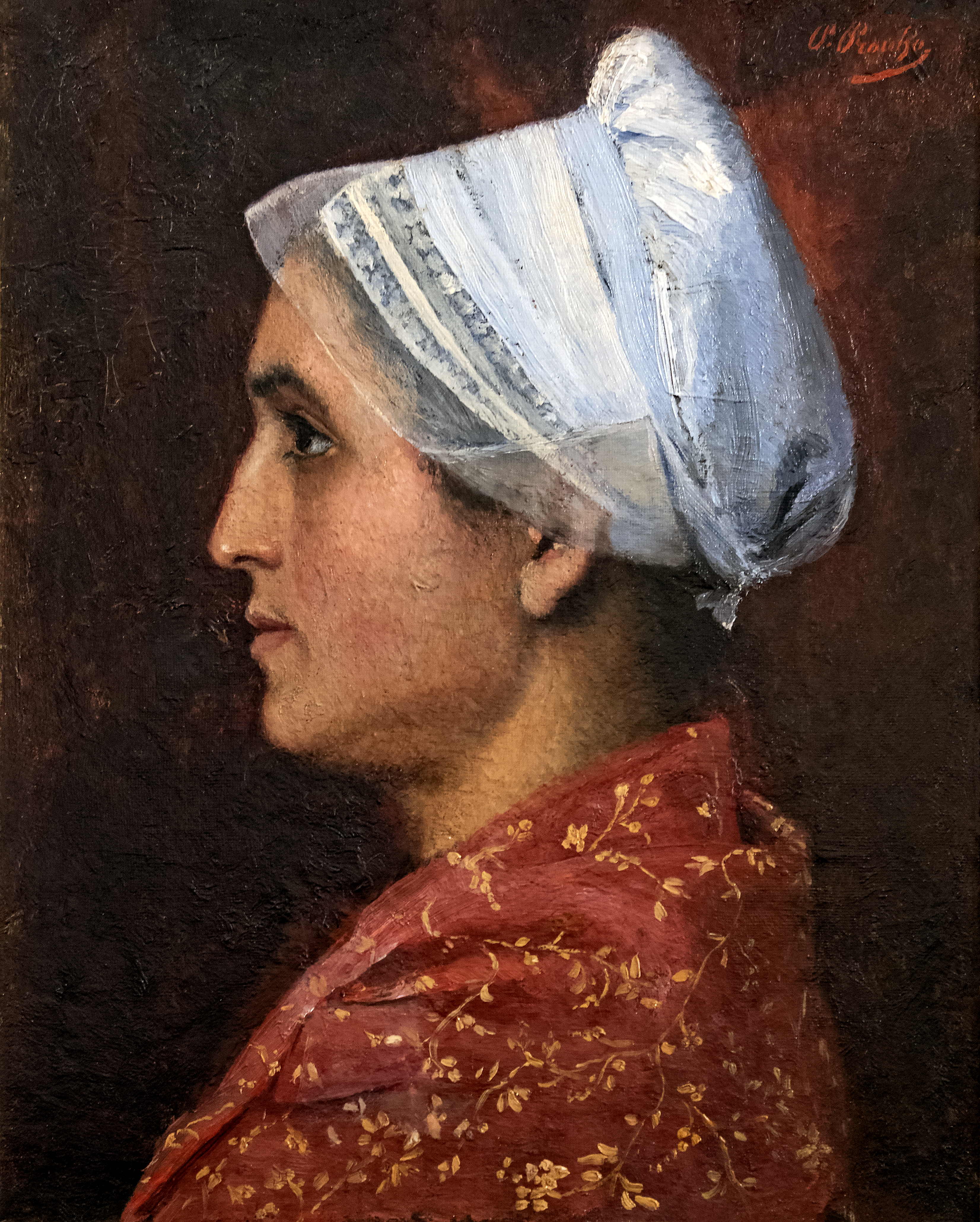 Rabastinoise wearing the local headdress "Lo Nébadis", literally: snowy.